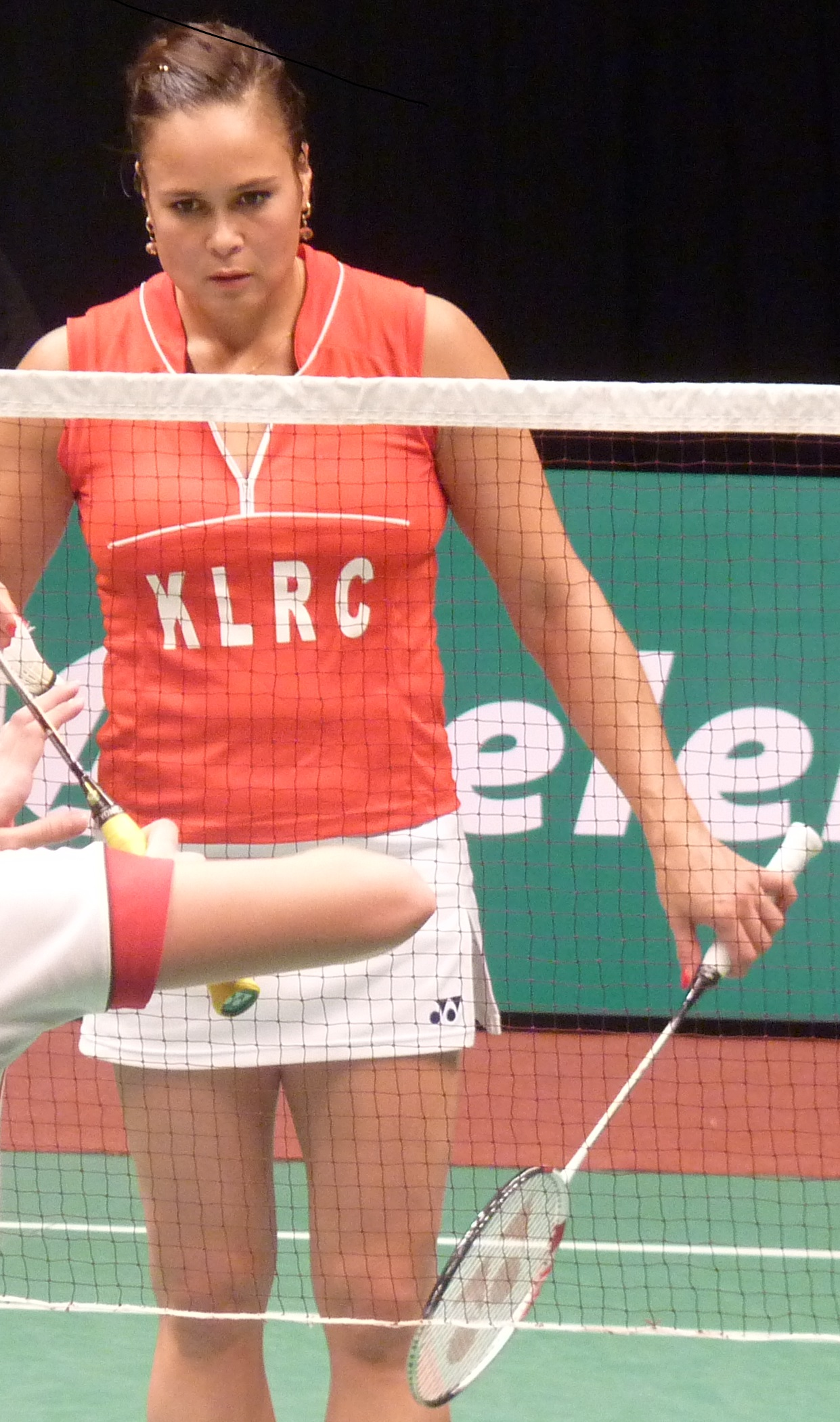 Lotte Jonathans (the Netherlands)